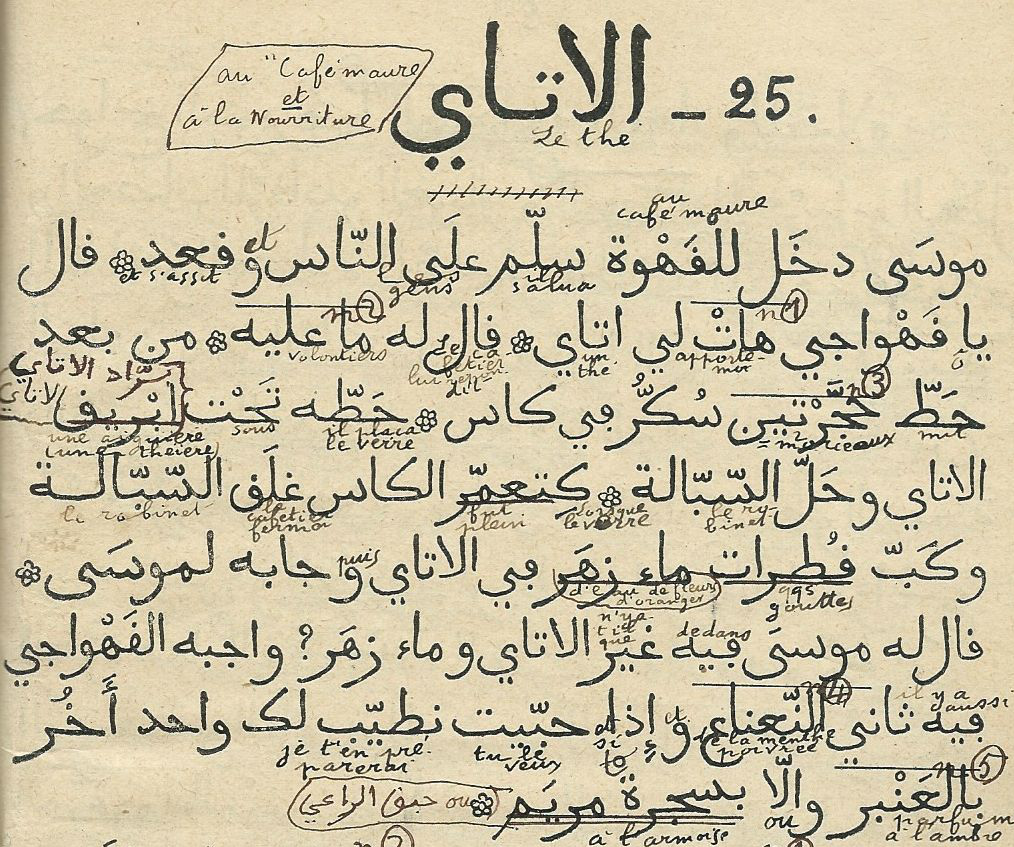 Text in Algerian arabic written in Arabic script.